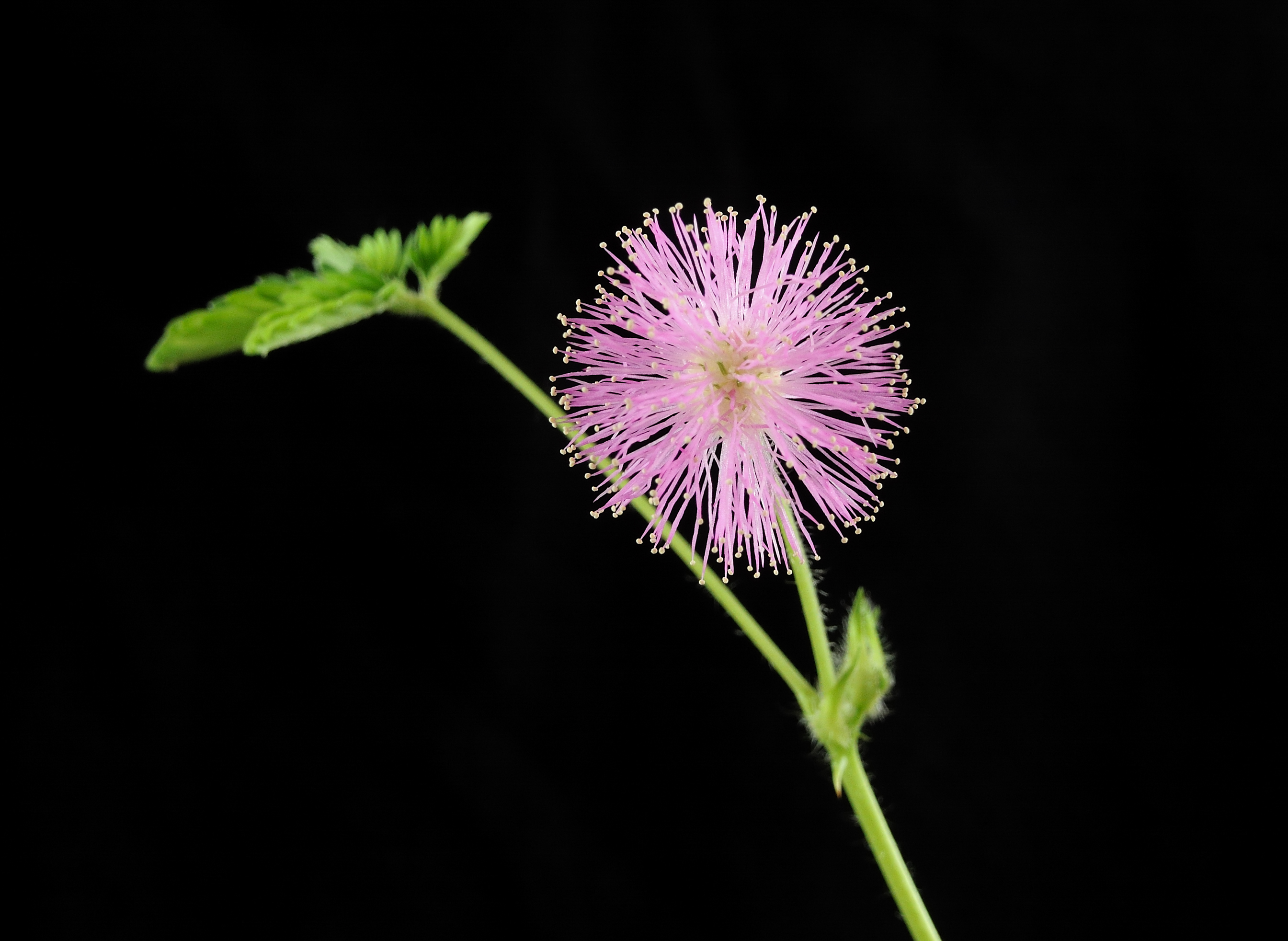 flower head in front of a dark background